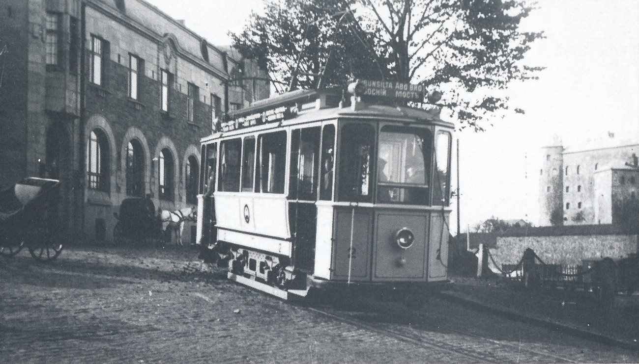 Tram at Severny Val street in Vyborg.